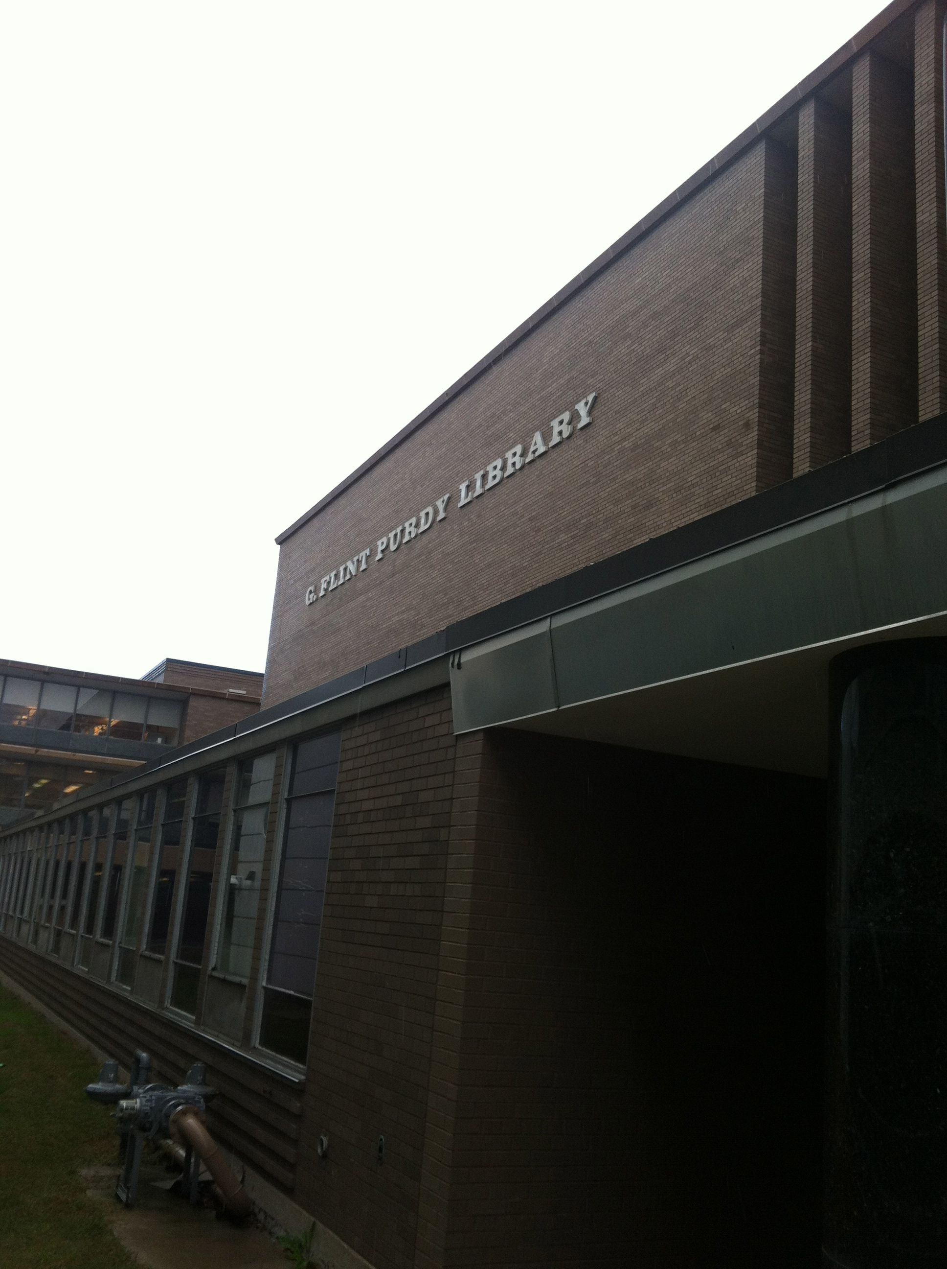 This photo was taken with my iPhone of the Purdy Kresge Library